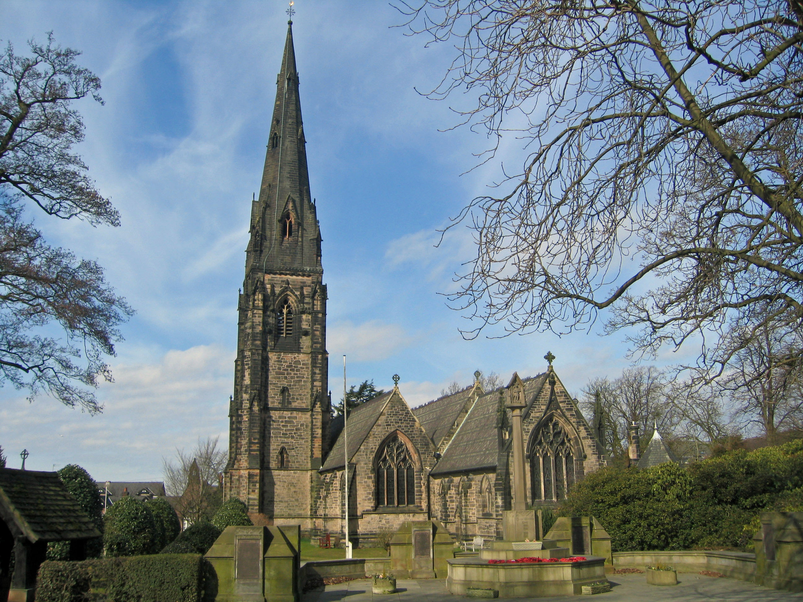 Photograph of St Philip's Church, Alderley Edge, Cheshire, England